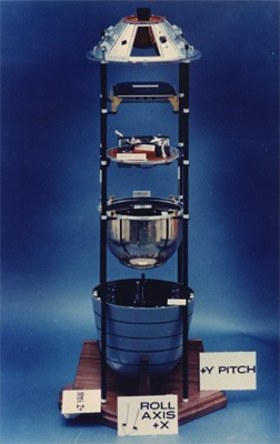 The specialized film return bucket used for the CORONA satellite. (CORONA film return bucker)